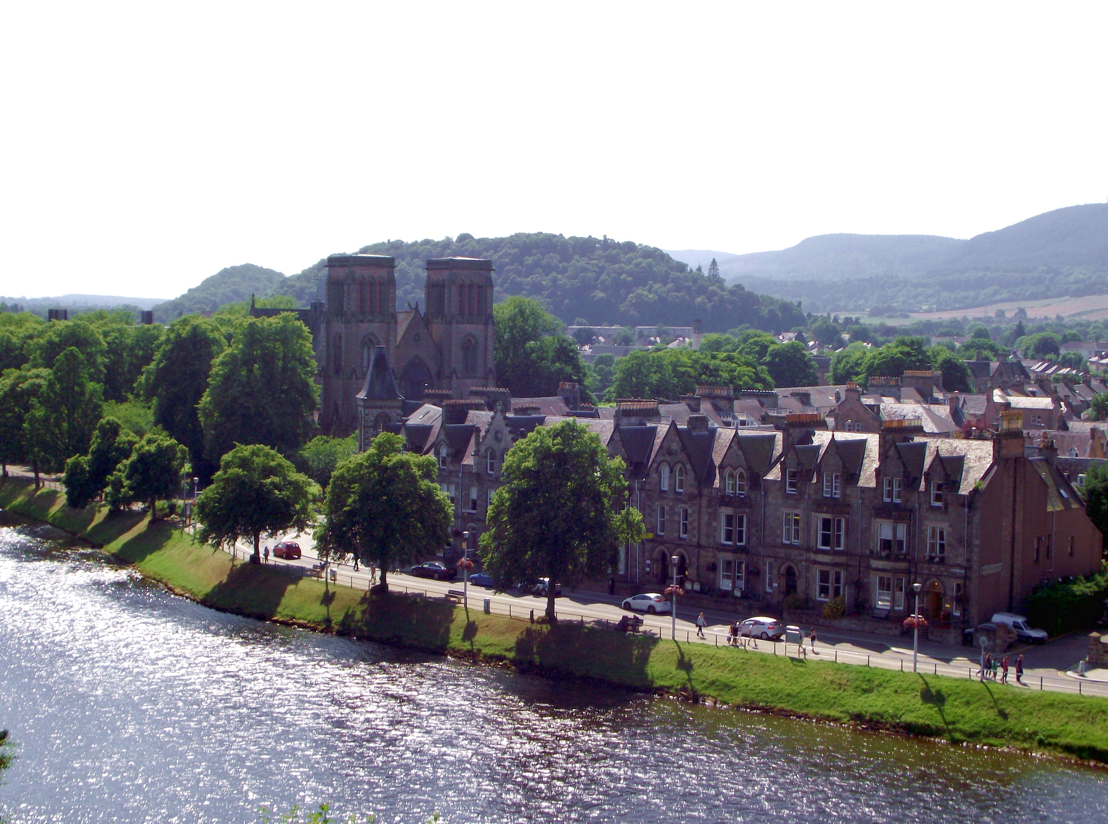 The view across the River Ness from Castle Hill, with Saint Andrews Cathedral in the cente of the shot. Inverness Cathedral, also known as the Cathedral Church of Saint Andrew (1866-69) is a cathedral of the Scottish Episcopal Church situated in the city of Inverness in Scotland. It is the seat of the Bishop of Moray, Ross and Caithness, ordinary of the Diocese of Moray, Ross and Caithness. The architect was Alexander Ross, who was based in the city. Construction began in 1866 and was complete by 1869, although a lack of funds precluded the building of the two giant spires of the original design.